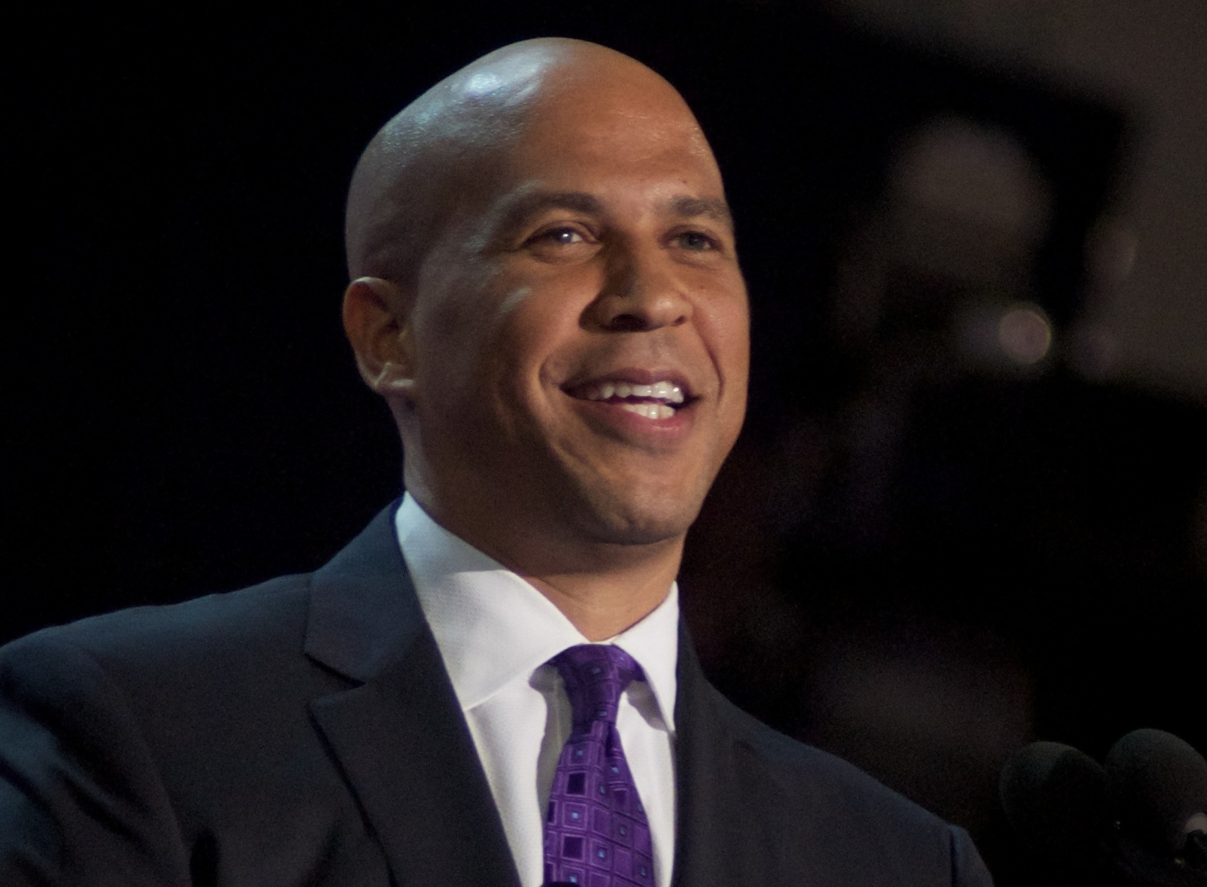 corey booker up close